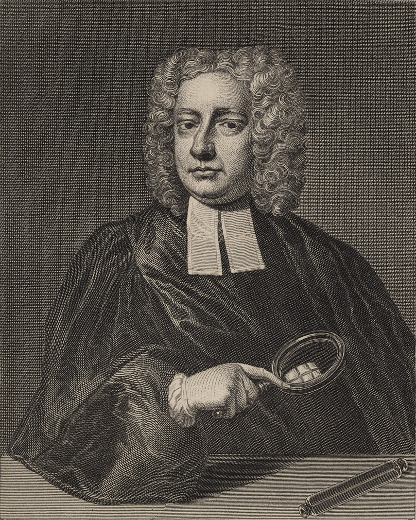 John Theophilus Desaguliers (1683–1744), French philosopher.